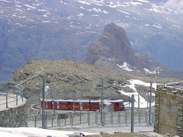 Gornergratbahn GGB / Gornergrat